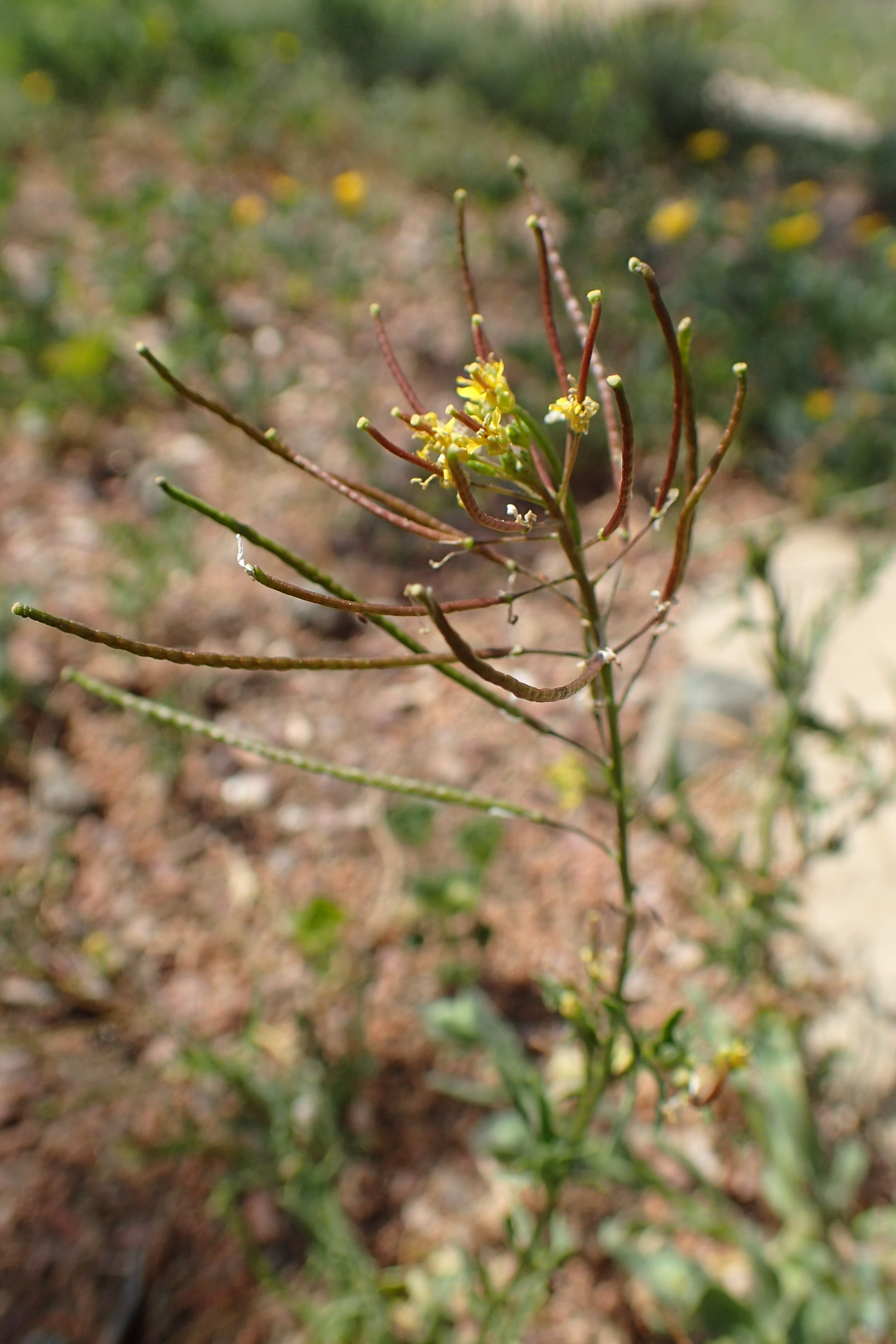 Sisymbrium irio in Athalassa, Cyprus